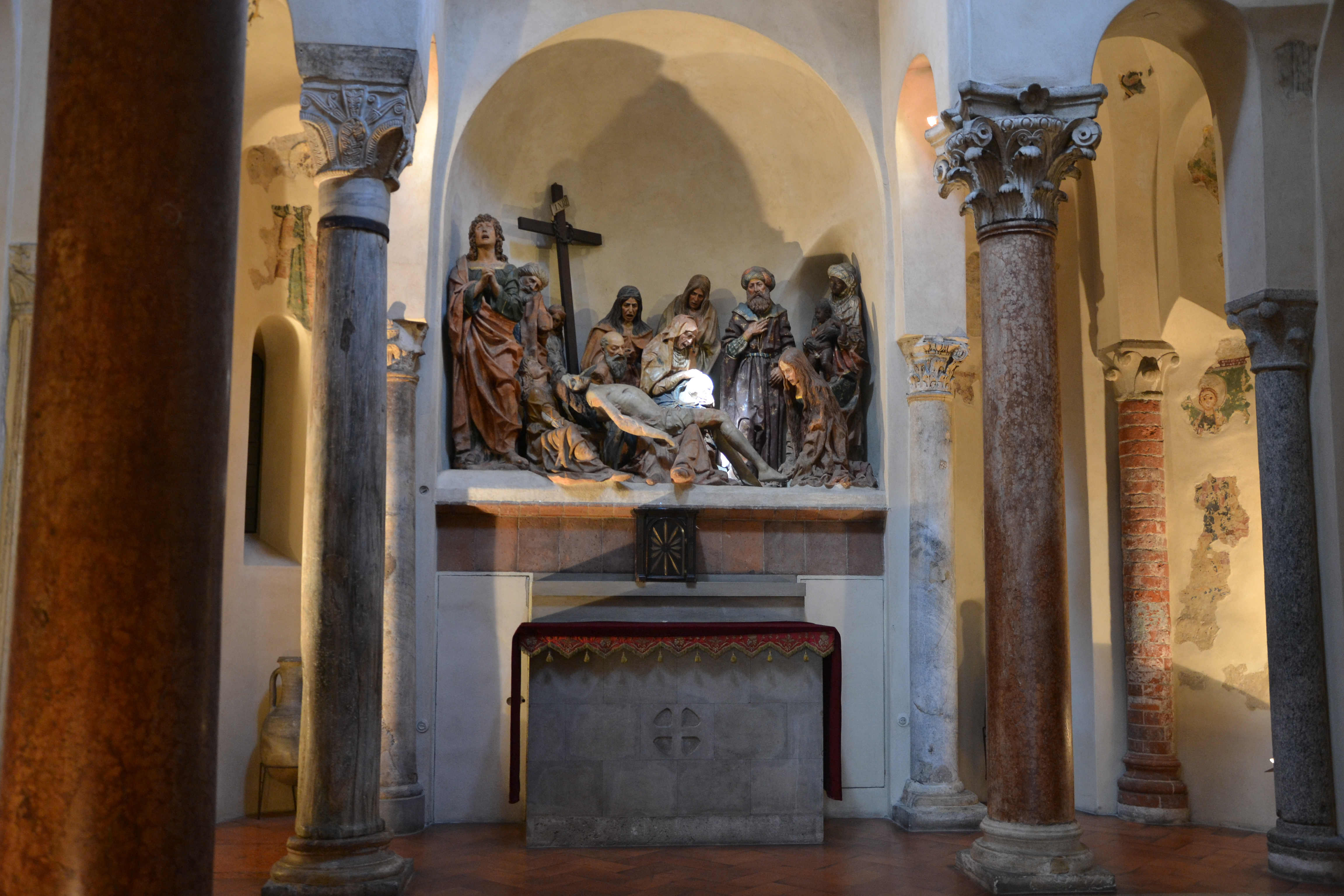 San Satiro (Milan) - clay sculptures by Agostino de' Fondulis